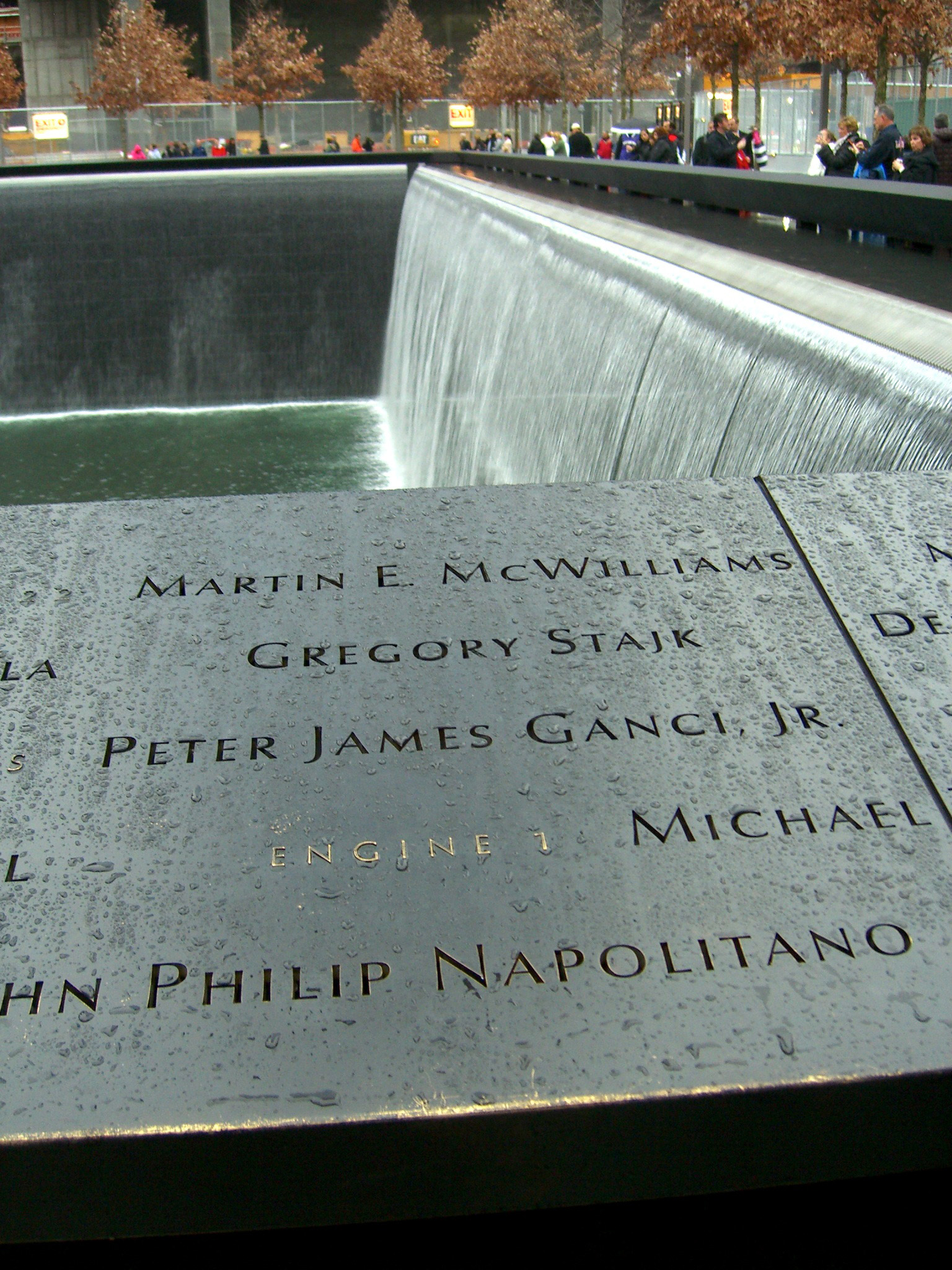 The name of Peter J. Ganci, Jr. is seen among those of other first responders inscribed on bronze panel S-17 of the South Pool of the National September 11 Memorial in Manhattan, on December 6, 2011. This photo was created by Luigi Novi. If you have any questions, you can contact me by sending me an email or User talk:Nightscream